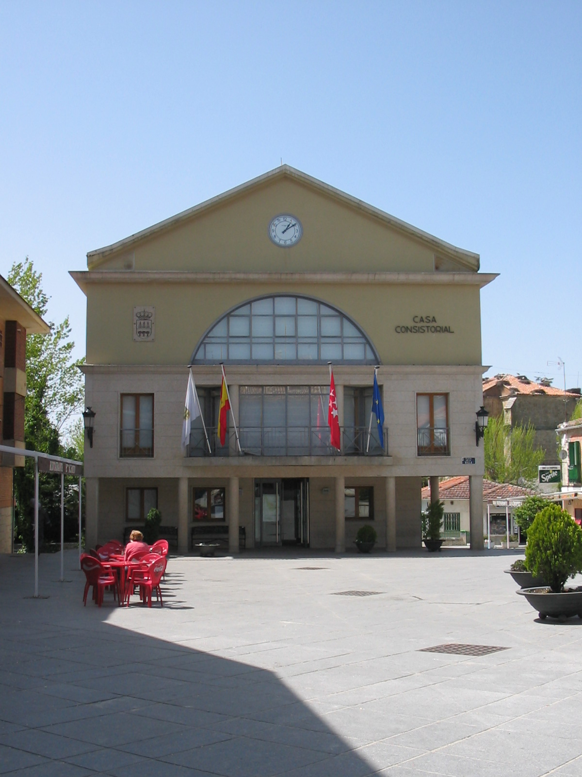 Soto del Real Town hall